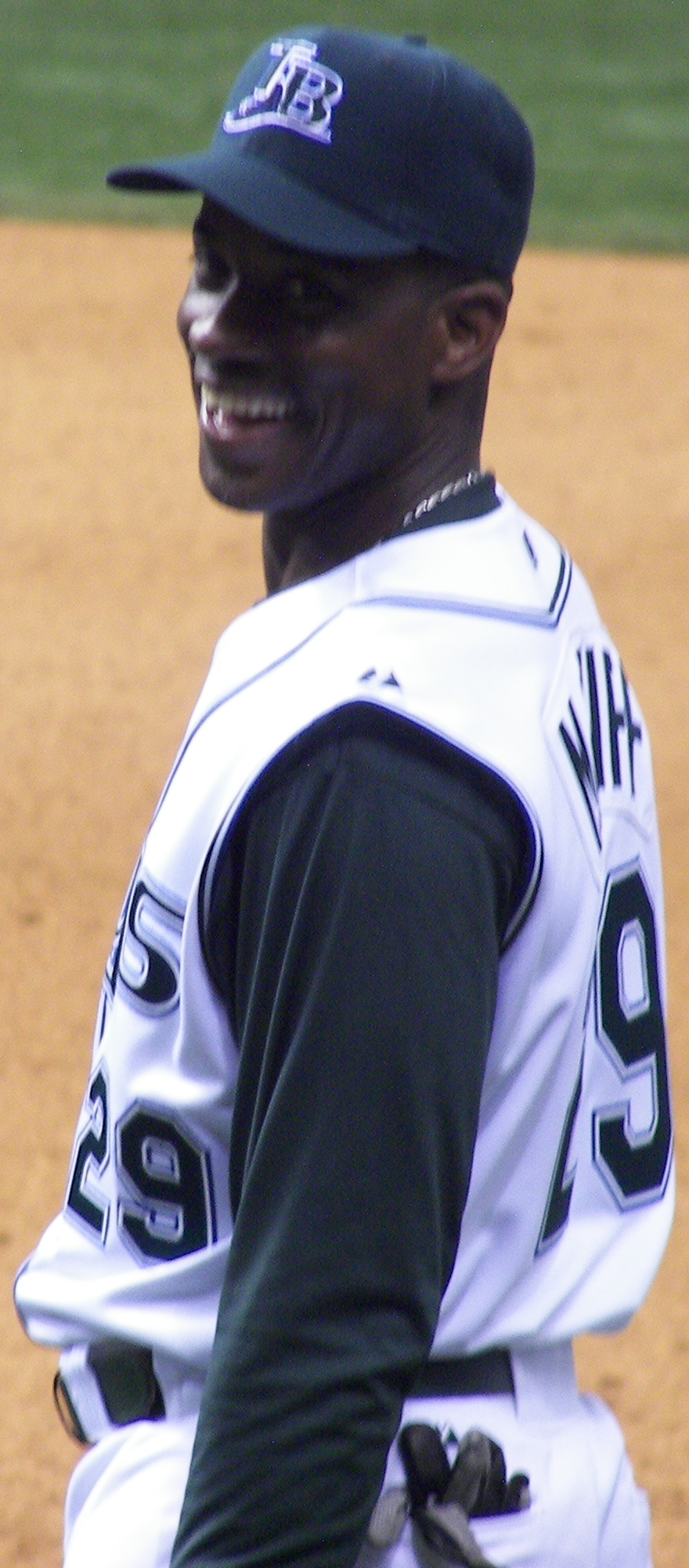 Tampa Bay Devil Rays first base coach Fred McGriff during a Devil Rays/New York Mets spring training game at Tropicana Field in St. Petersburg, Florida.